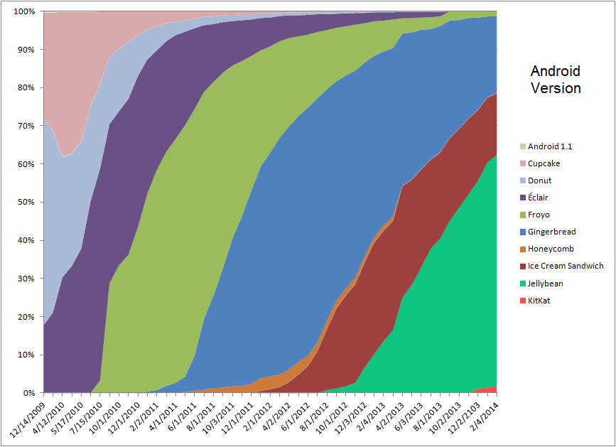 Derivative of File:Android_historical_version_distribution.png using only dessert name versions without API level or version number